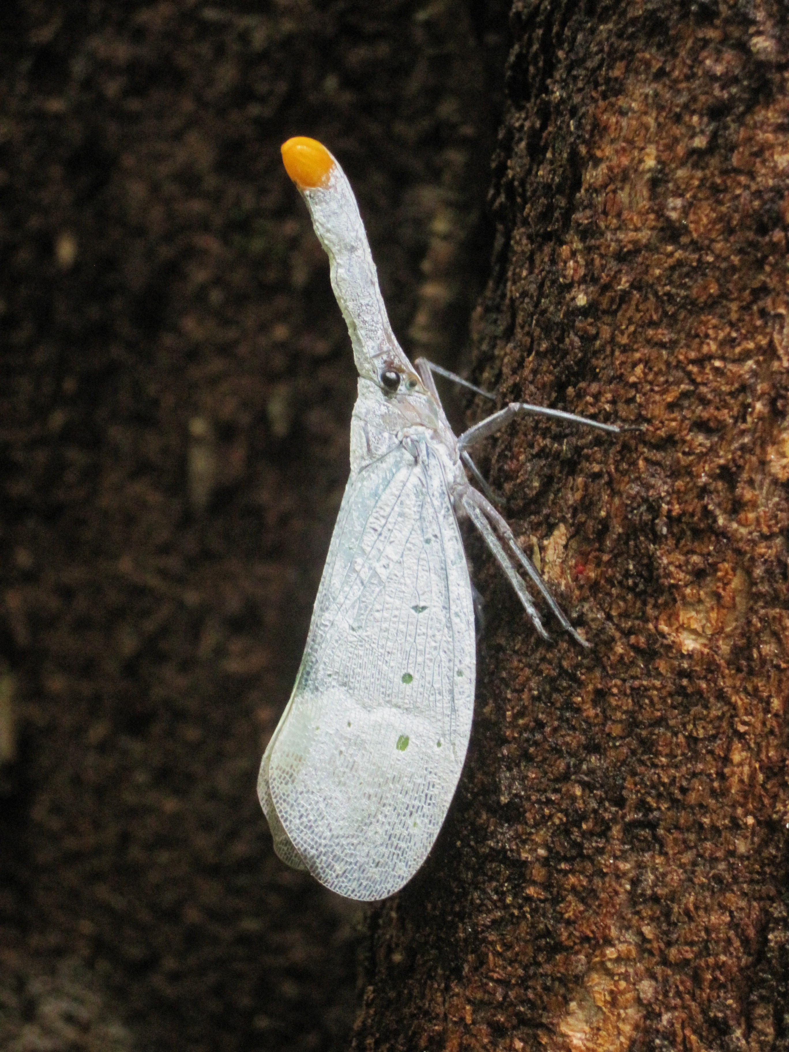 Gunung Leuser National Park, Sumatra Thanks to Jerome Constant for ID